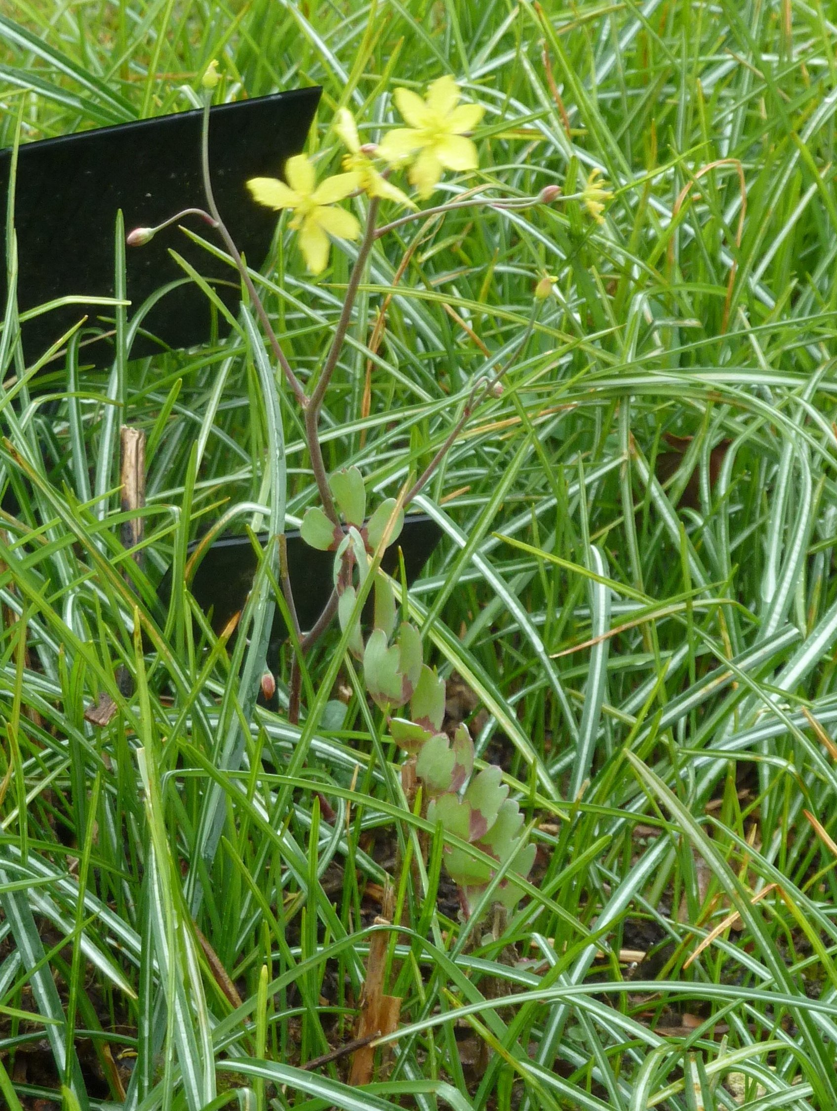 A crappy shot of a peculiar little weed. This has been in the open border since before I started at Pool Meadow and all it has produced before is one leaf. (The crocus leaves around it here give some idea how conspicuous that is.) This year it has, for some reason, decided to produce some flowers. FYI Bongardia is a small tuberous member of the Berberidaceae (related to Epimedium) from western and central Asia and is usually only recommended for bulb frames and alpine houses where it can be kept dry in summer.